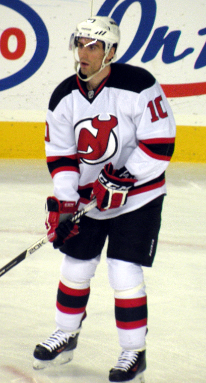 New Jersey Devils defenceman Peter Harrold prior to a National Hockey League game in Calgary.